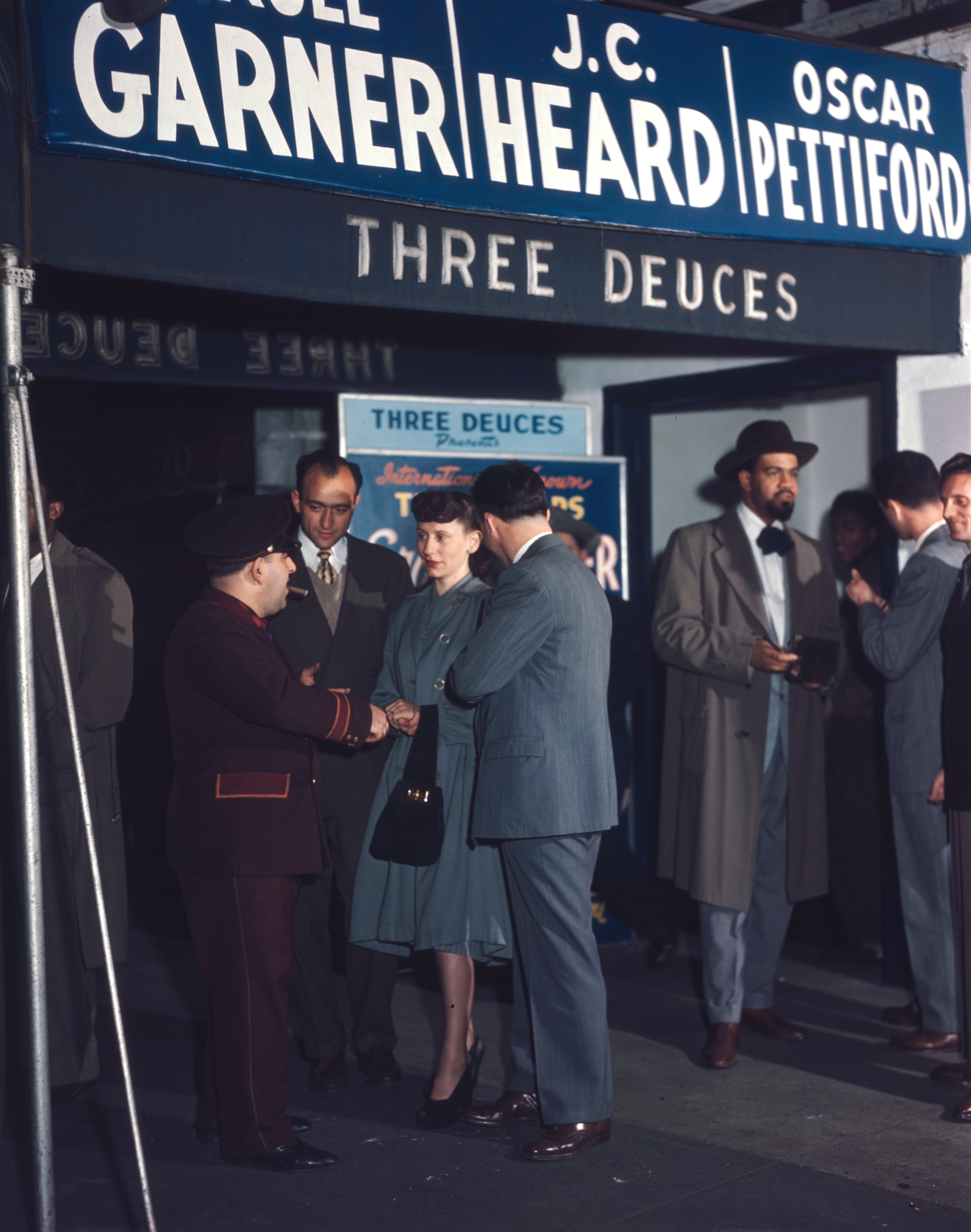 Three Deuces, New York, N.Y., ca. July 1948 (Photograph by William P. Gottlieb) The man in the hat at the right in this photo is bassist Al McKibbon.